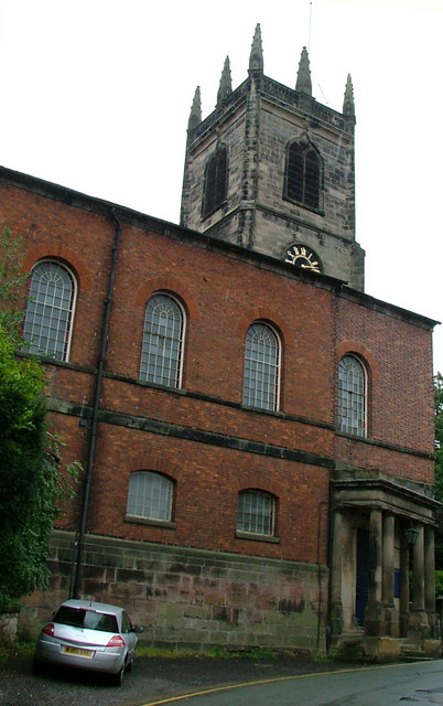 St Peter's Church. Behind this stern facade lies a Grade 1 Georgian interior